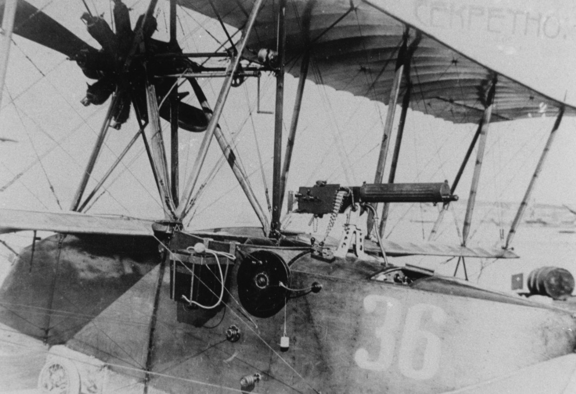 Russian Navy Grigorovich M-5 Type Flying Boat during World War I. A close up view of a Russian Navy Grigorovich M-5 Type Flying Boat, Serial Number 36. Courtesy of Mr. Boris V. Drapshil of Margate, Florida, 1984.